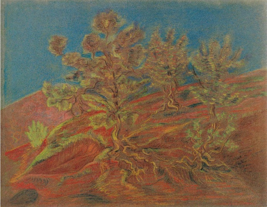 G. Yakulov. Dilijan landscape (sketch) Colored paper, colored pencil. 25 × 33 cm The sketch is located in the National Gallery of Armenia.